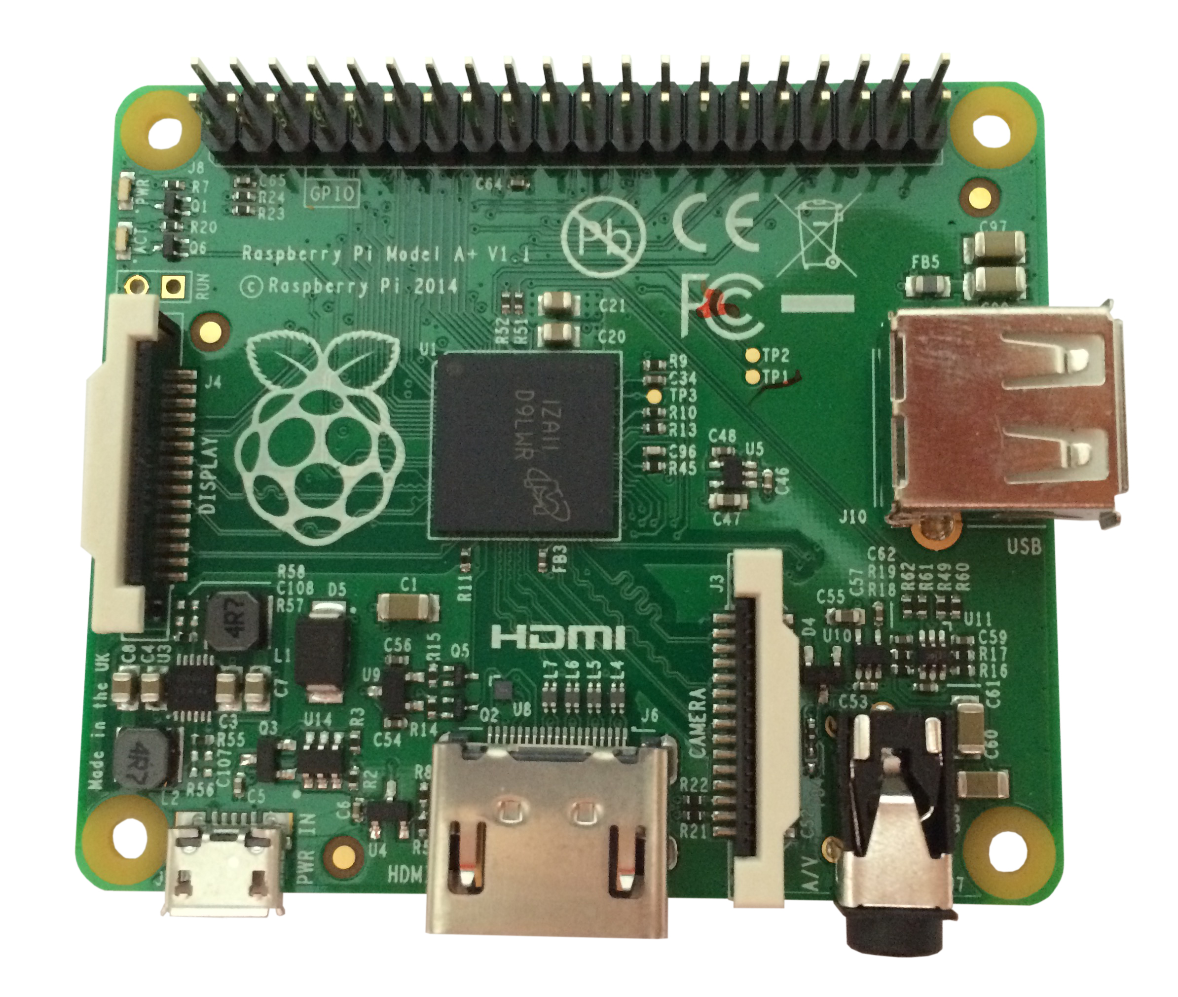 Raspberry Pi modell A+